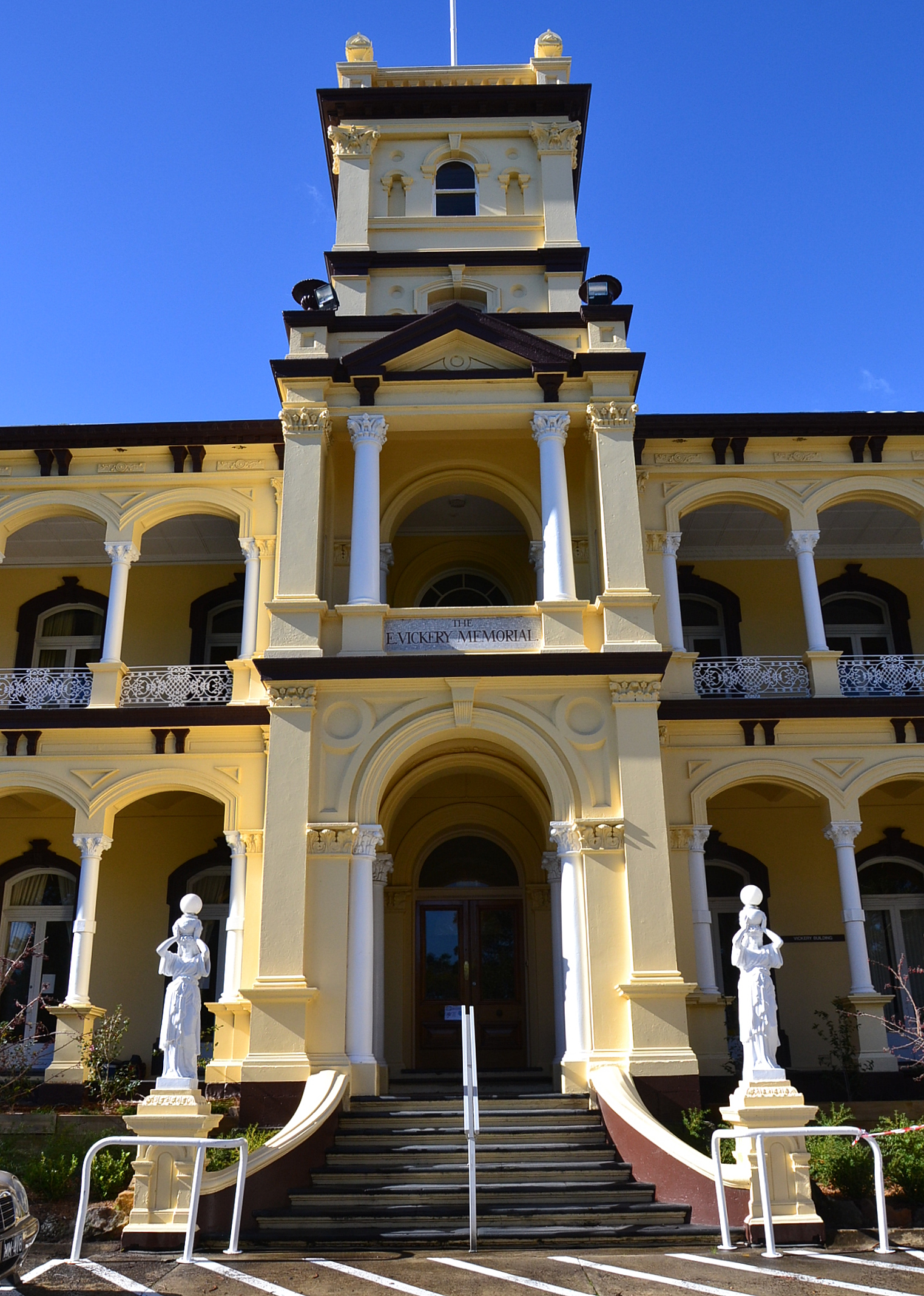 War Memorial Hospital, Waverley, Sydney